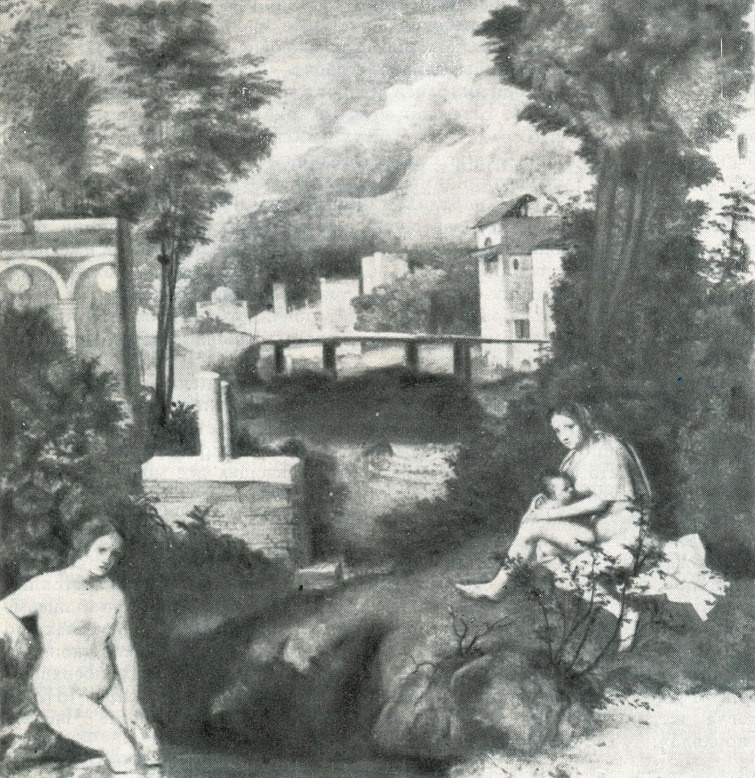 X-radiograph of The Tempest by Giorgione